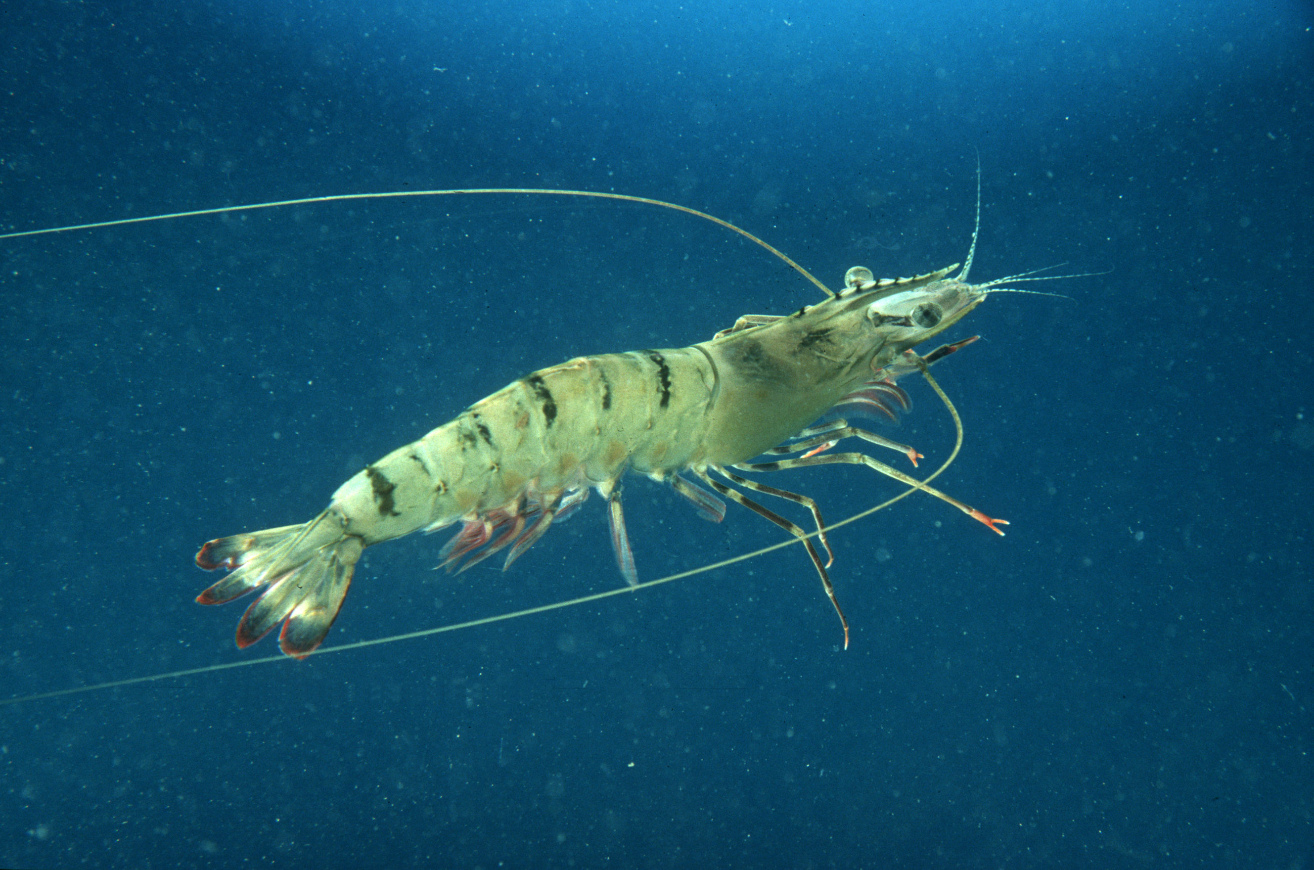 A prawn.